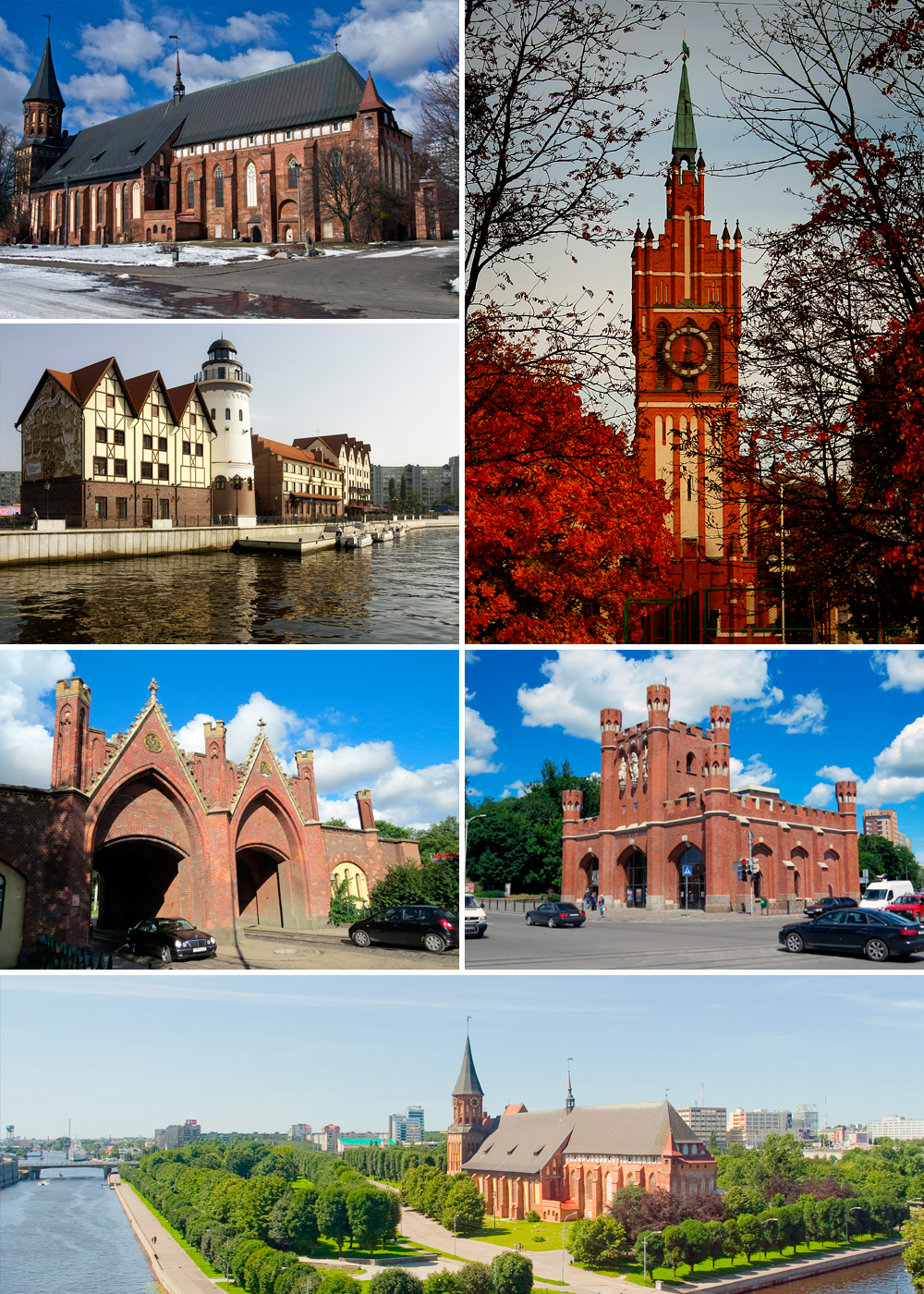 Collage for Kaliningrad Article